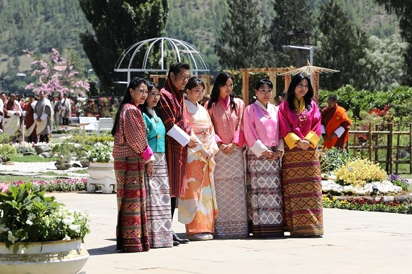 His Majesty The King, Her Majesty The Gyaltsuen, Their Majesties Gyalyum Tshering Yangdon, Gyalyum Dorji Wangmo, Gyalyum Tshering Pem and Gyalyum Sangay Choden, with HIH Princess Mako